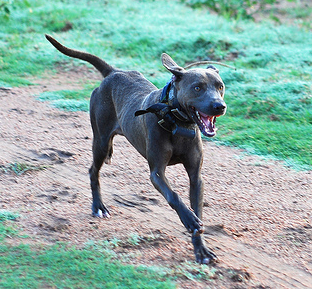 Lacy tracking wild hogs